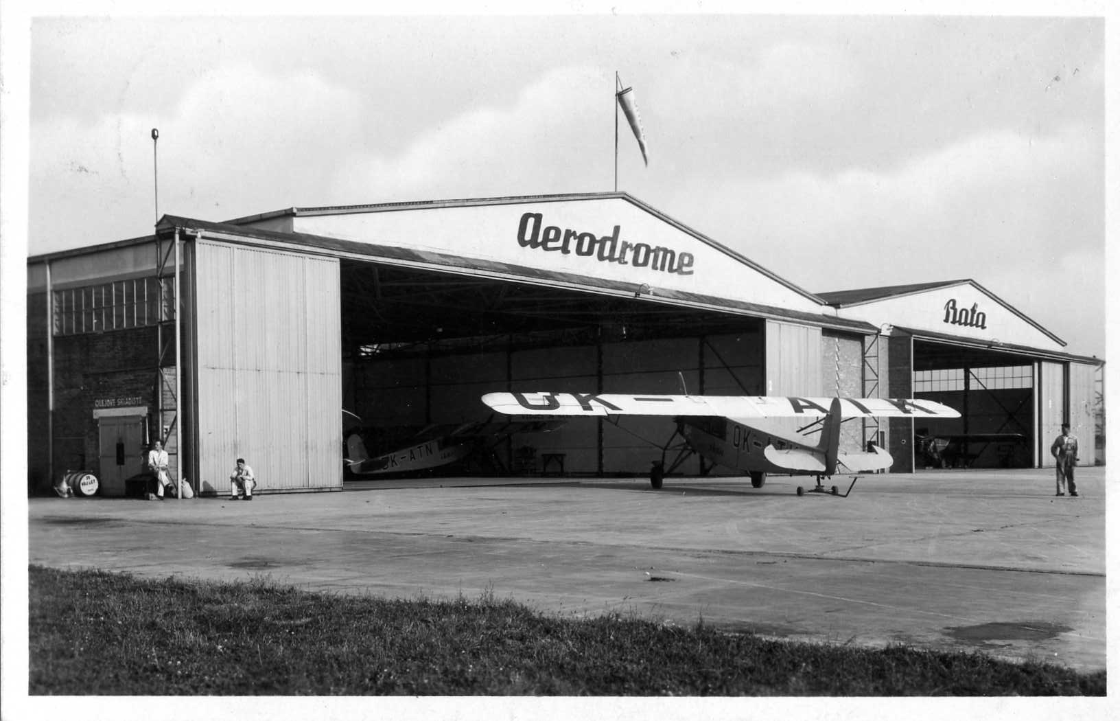 postcard published c 1938 showing the Bata aerodrome in Otrokovice which still stands today. It served as a German air force base, training school and weather station during World War II. OK-ATN is inside the hangar, OK-ATK outside, a pair of Czechoslovakian Aero A-35 planes, new in 1933